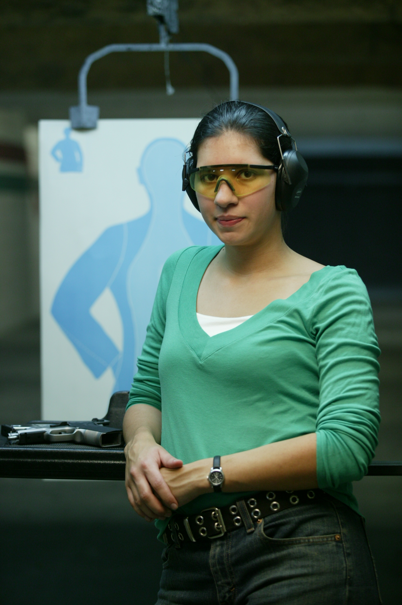 A shooter in the indoor firearm lanes at H&H Shooting Sports Complex